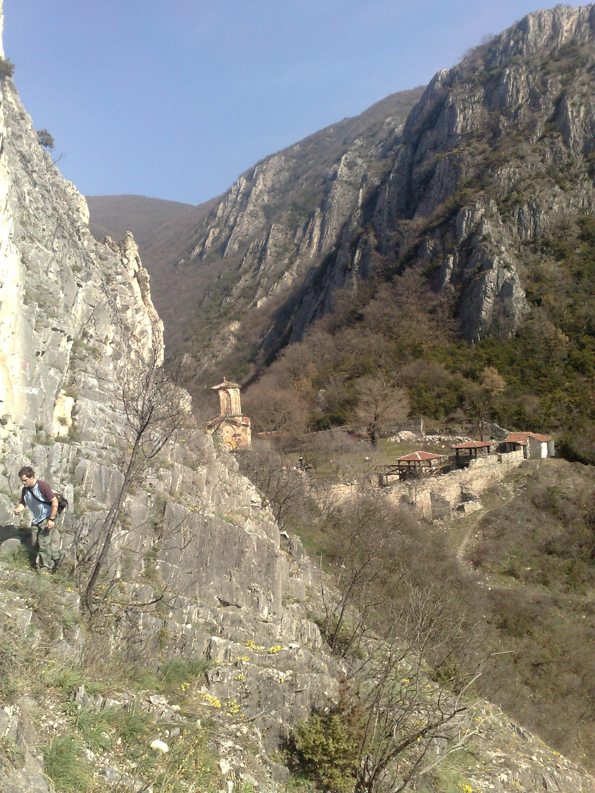 View of the monastery of Saint Nicolas of Shishevo - Matka Canyon, Macedonia